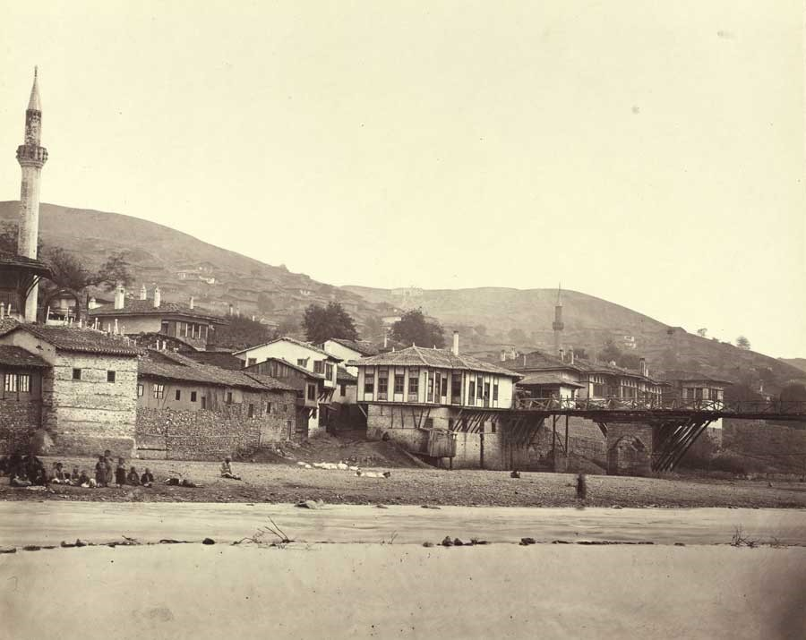 Veles (Köprülü), Ottoman Empire (today Macedonia) in 1863